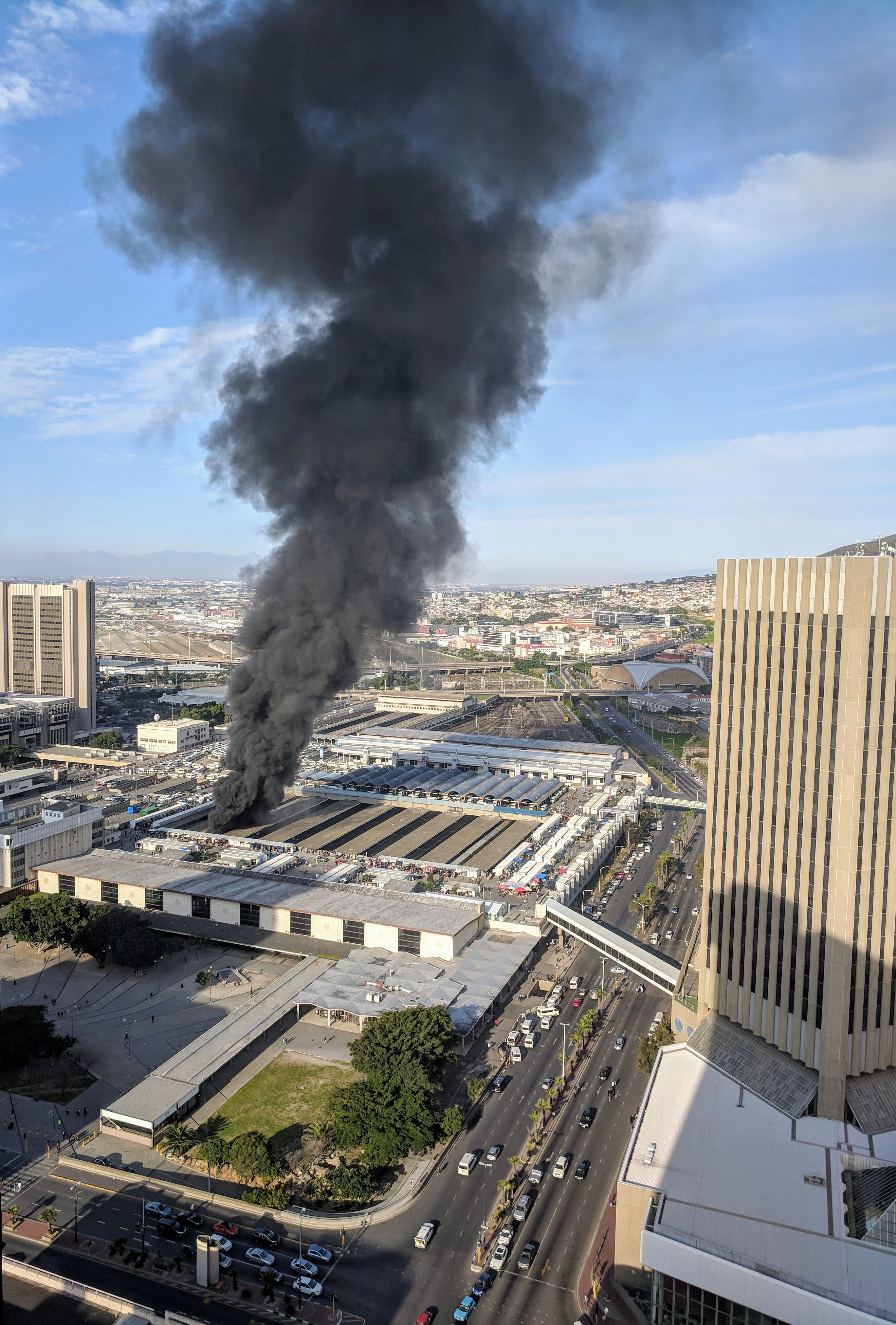 Train fire at train station in Cape Town, South Africa. 2018-07-21